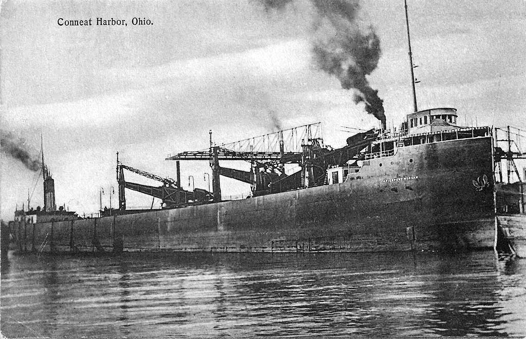 Postcard view of the J. Pierpont Morgan circa 1910